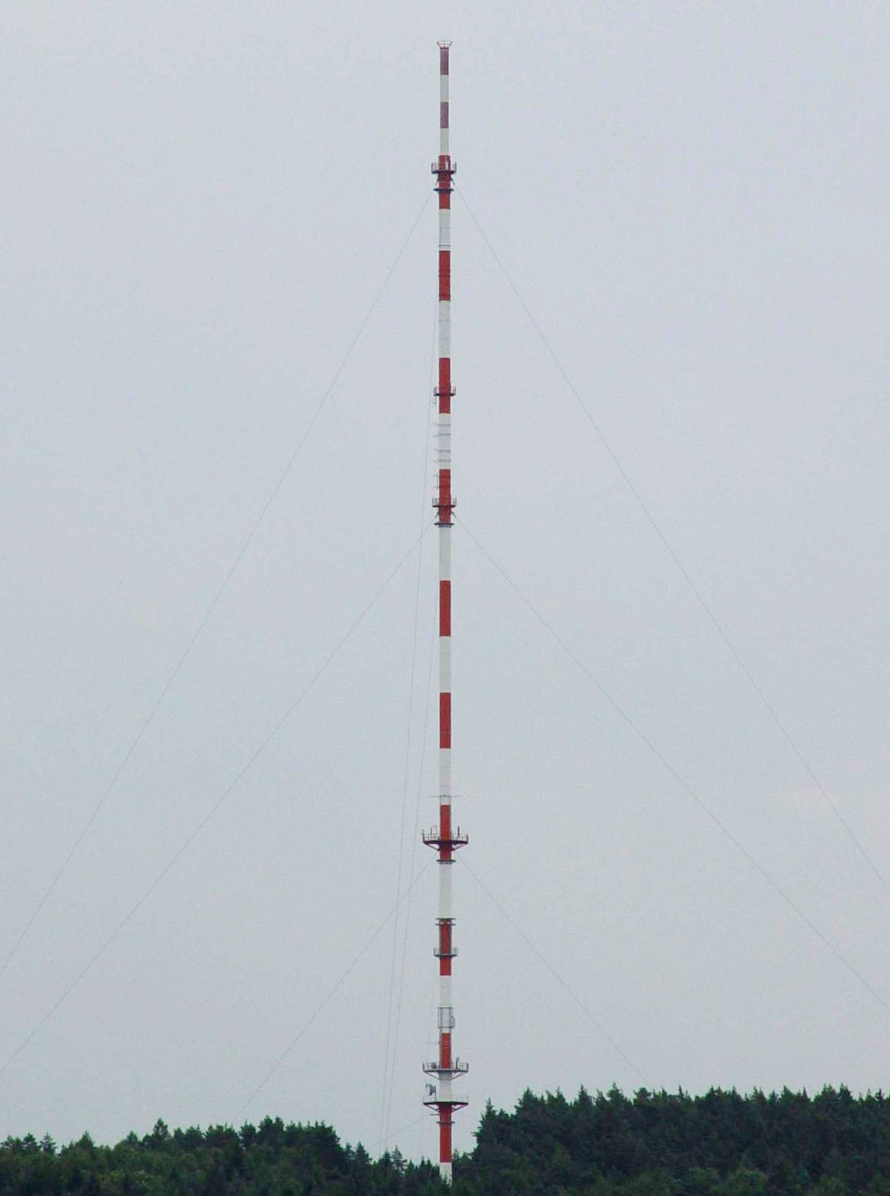 Transmitter, Radio Station "Schwabach"